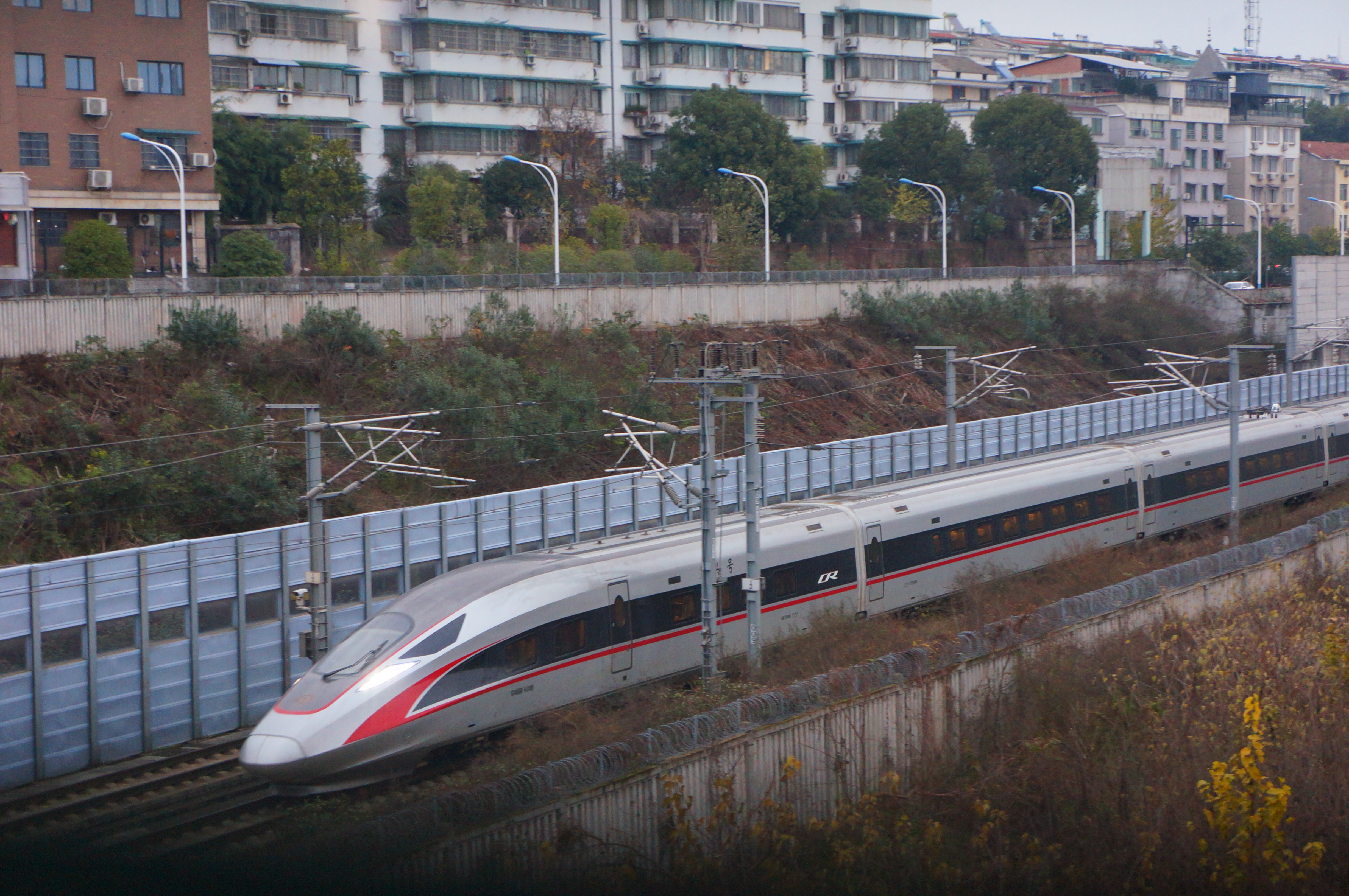 G1305 from Shanghai Hongqiao to Guangzhounan, not that terribly delayed. The Last photo upload this year.